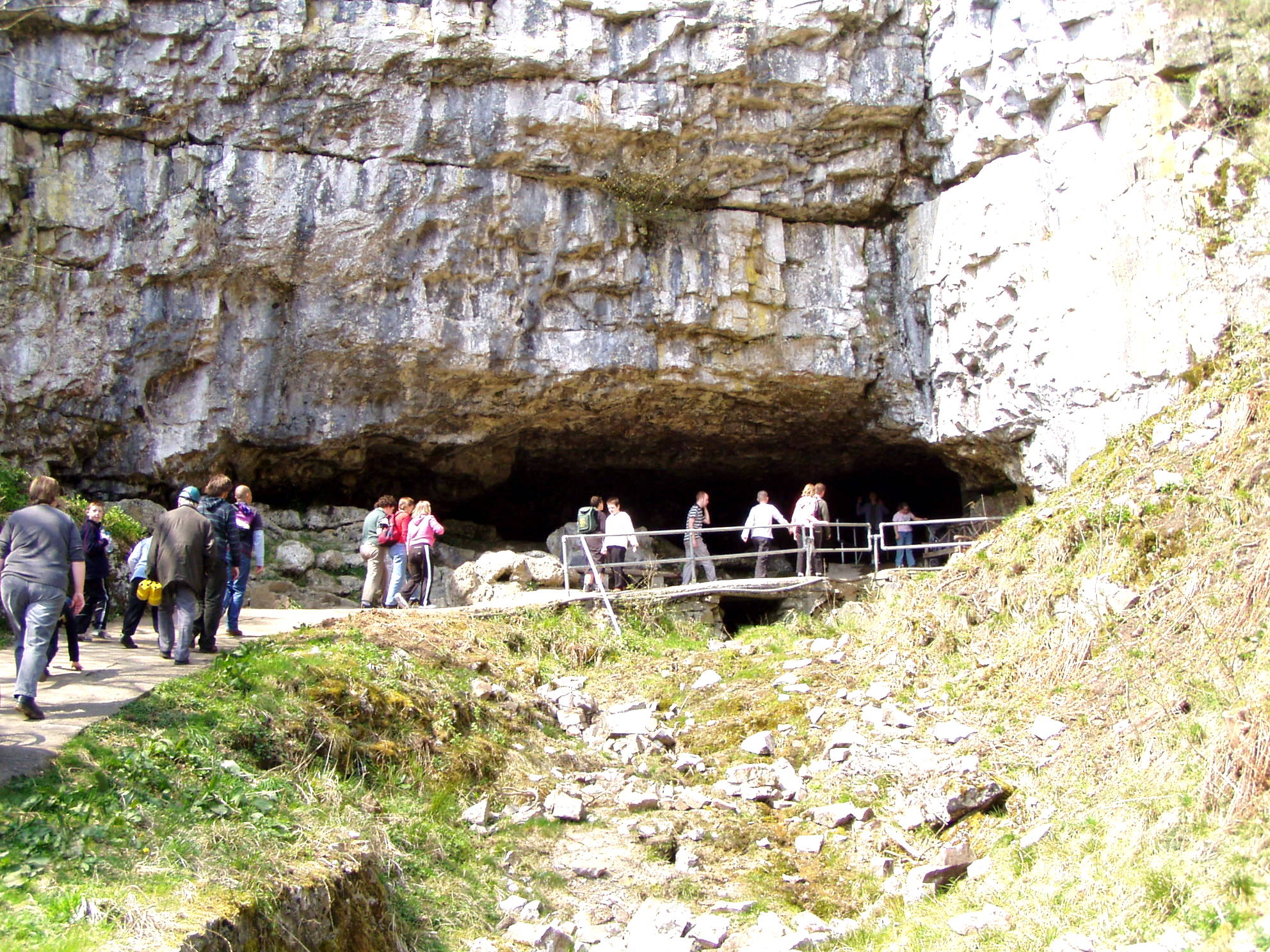 A party entering Ingleborough Show Cave